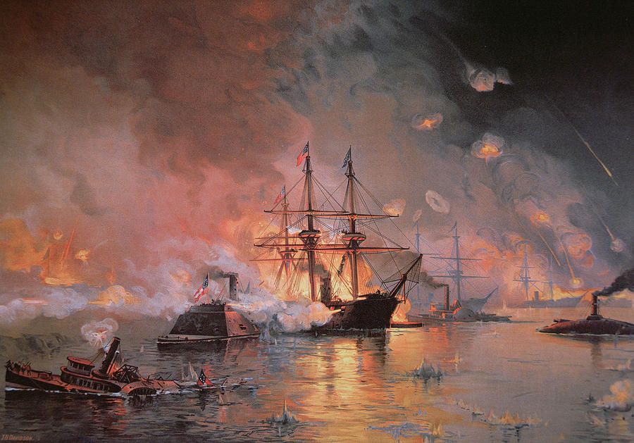 Capture of New Orleans by Union Flag Officer David G Farragut. The screw sloop of war USS Hartford in center of the painting.